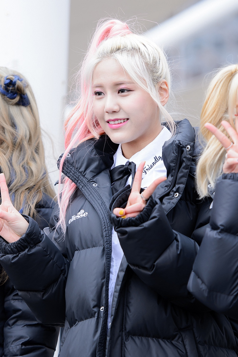 Shin Hye-jeong at a mini fan meeting on March 12, 2016.